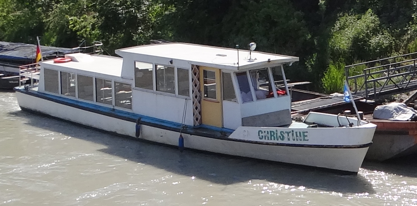 Christine, ex Forelle